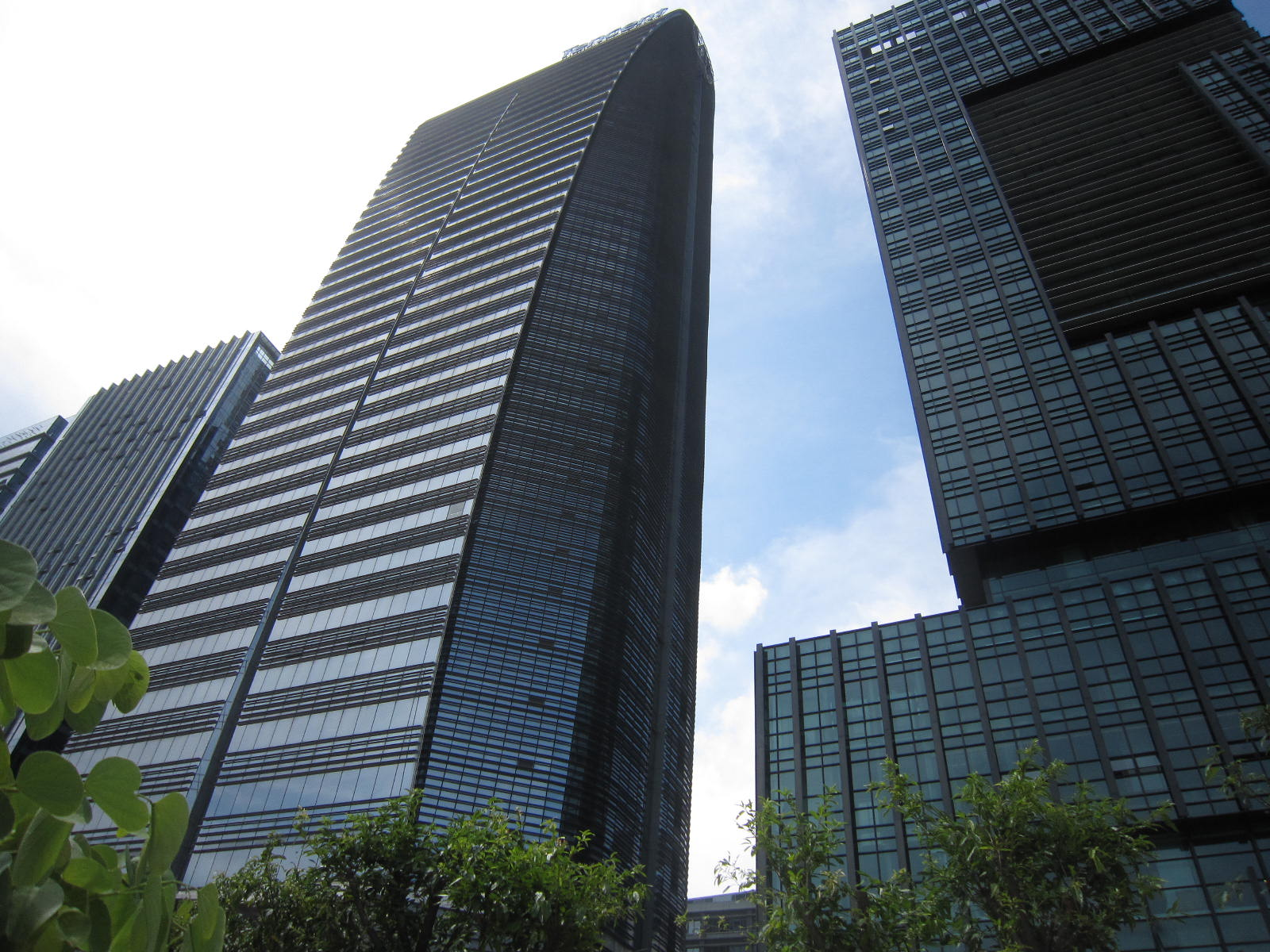 Shenzhen Shekou district, Tencent head quarter